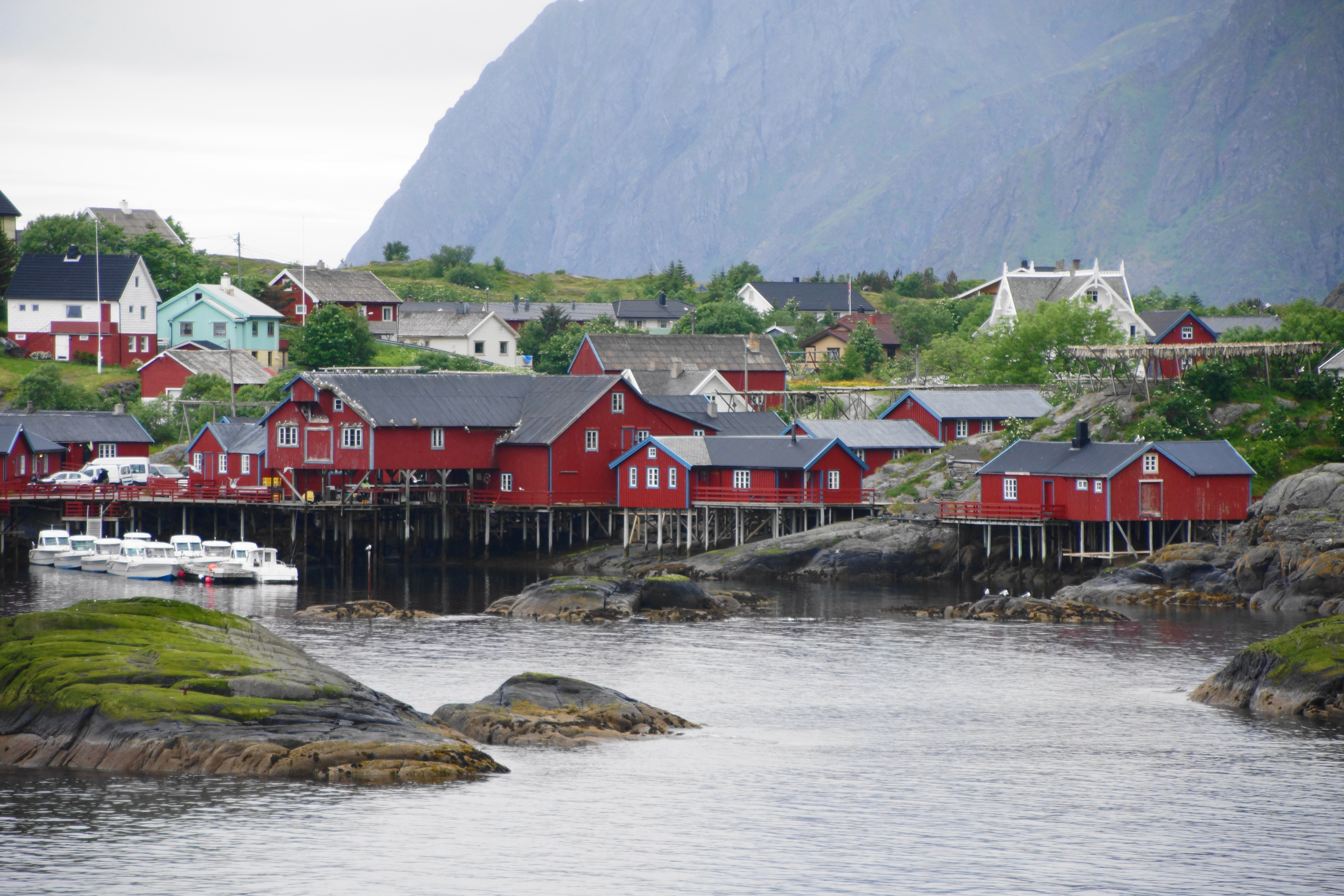 Sørvågen is fishing village in Moskenes municipality in Lofoten in Nordland.